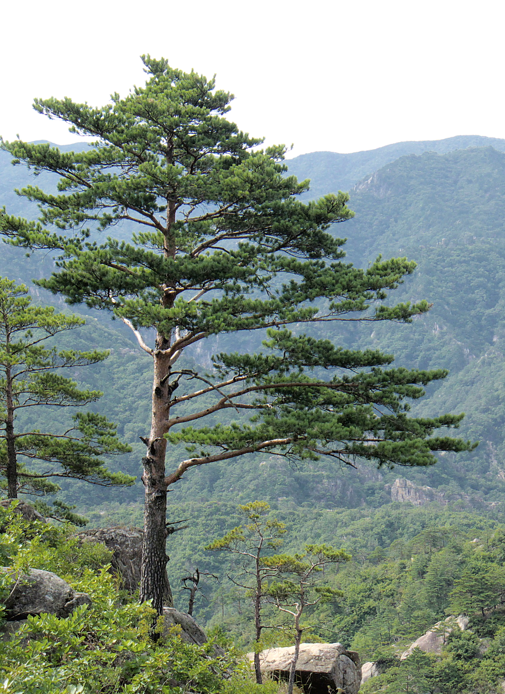 Pinus densiflora, Kumgangsan ("Diamond Mountains"), North Korea, just north of the Demilitarized Zone buffer zone between North and South Korea.